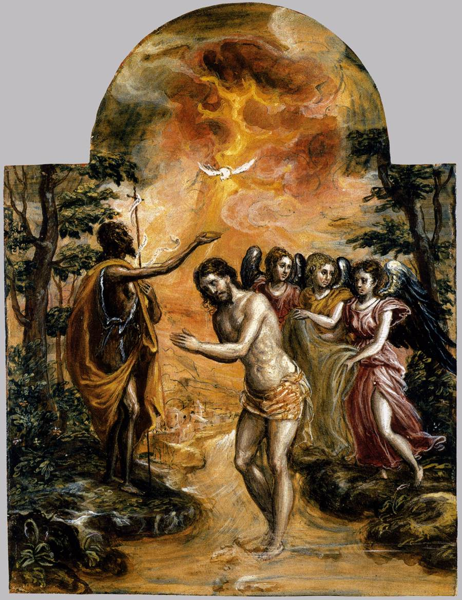 Right panel of the Modena Triptych